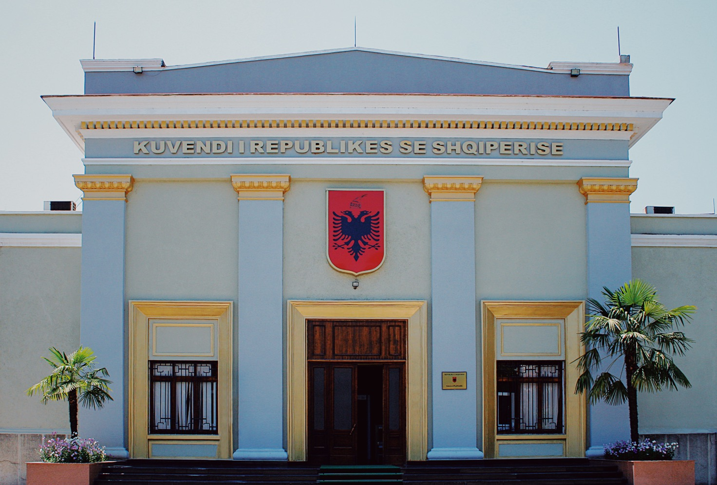 Image of Albania's Parliament